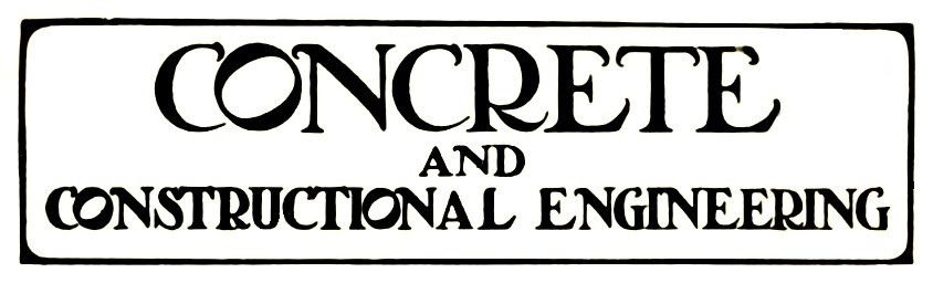 Logo of Concrete and Constructional Engineering magazine.